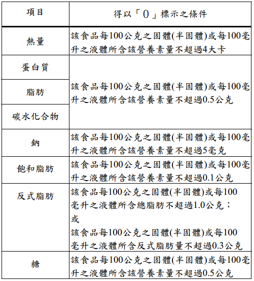 Nutrition facts label format 3-1 of Taiwan